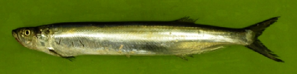 Chirocentrus dorab collected in Pakistan.